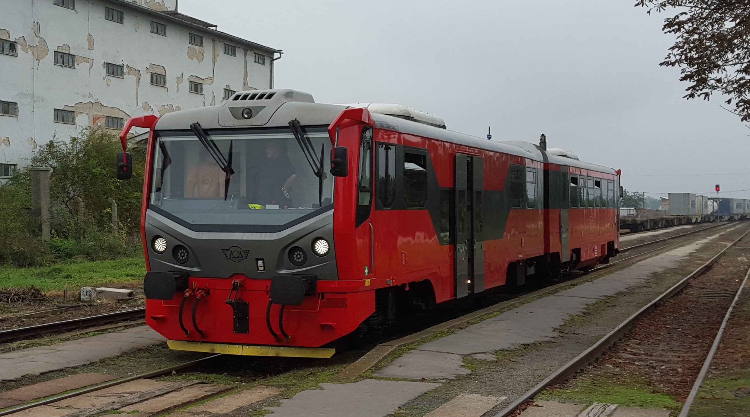 A diesel railcar of ZOS Zvolen at a station in Zlatná na Ostrove in Slovakia. It got here on a railfan tour.